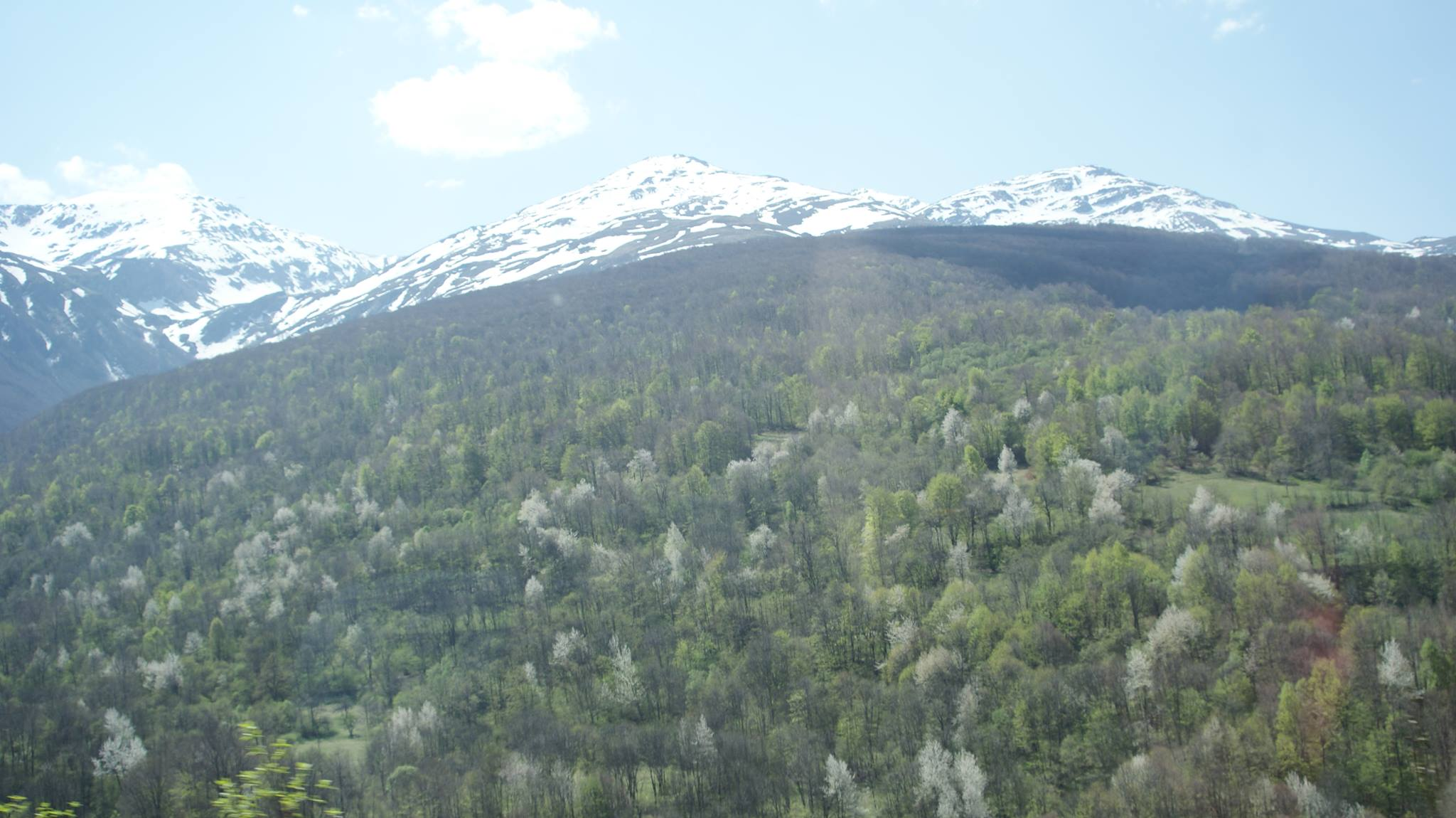 Prevallaa